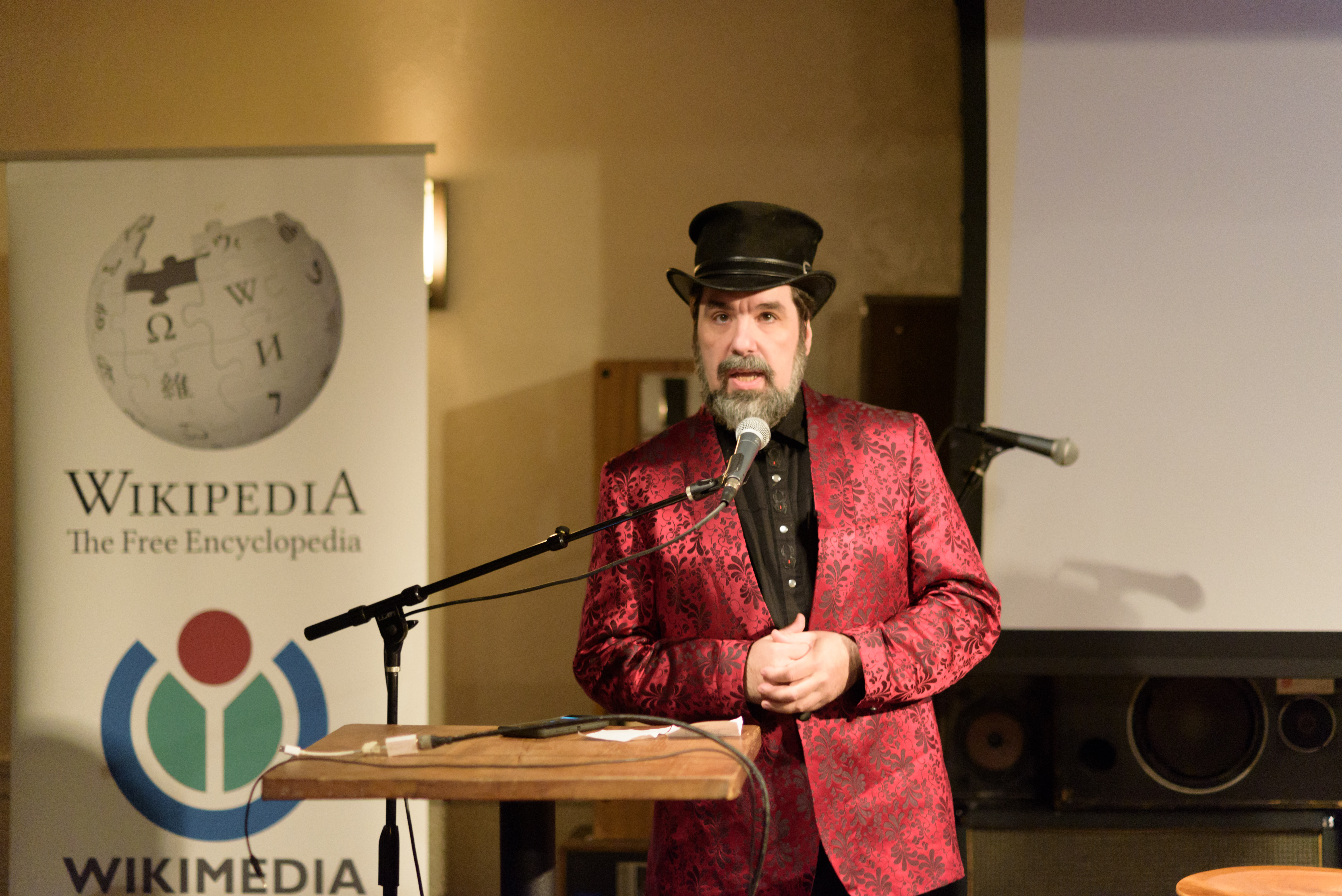 Keynote presentation by Jason Scott, Wikipedia Day 2018, Ace Hotel, New York City.